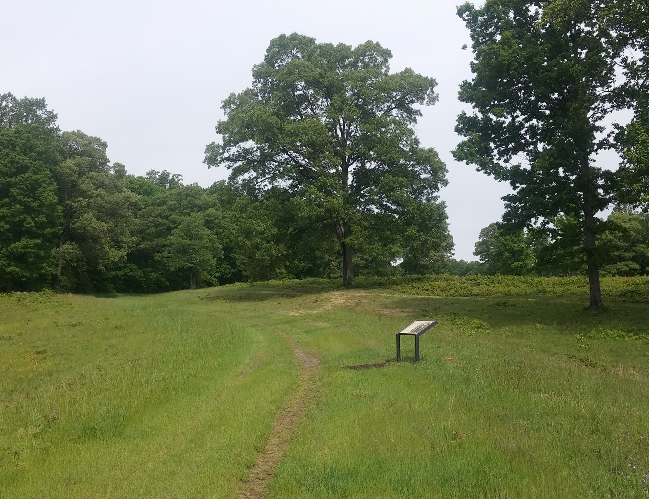 Position, where Johnson and Stewars was captured at Spotsilvania.